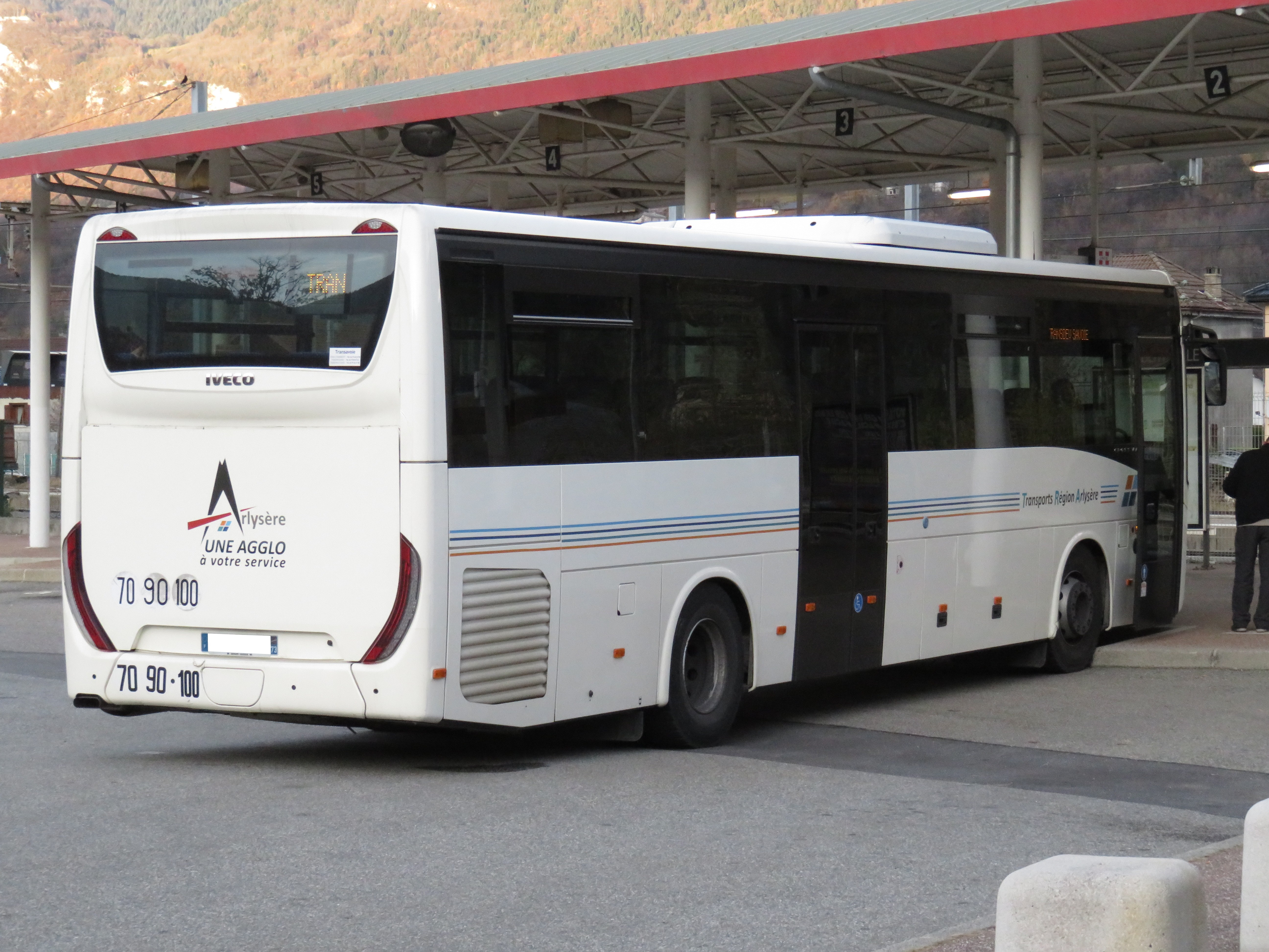 An Iveco Crossway (n°698 of Transavoie) running on Transports Région Arlysère’s line C — Gare routière, Albertville↔Chef-Lieu, Ugine — at the bus station (Albertville, France) on November 23, 2017.